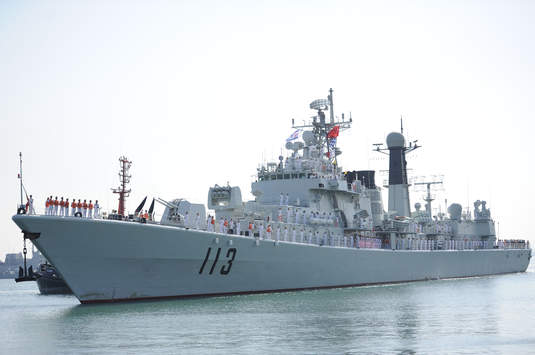 The Israel Navy congratulates the Chinese Navy on docking at the Haifa port. On August 13, 2012, the Chinese vessels arrived at Israel in order to celebrate 20 years of cooperation between the Israel Navy and the Chinese Navy. RADM Yang Jun-Fei was welcomed by the Haifa base commander, Brig. Gen. Eli Sharvit, upon his docking.